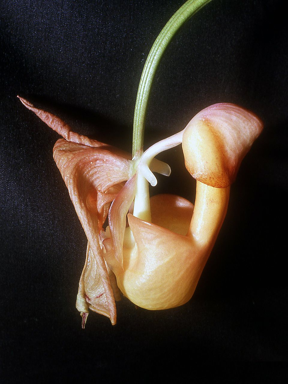 Coryanthes mastersiana - flower